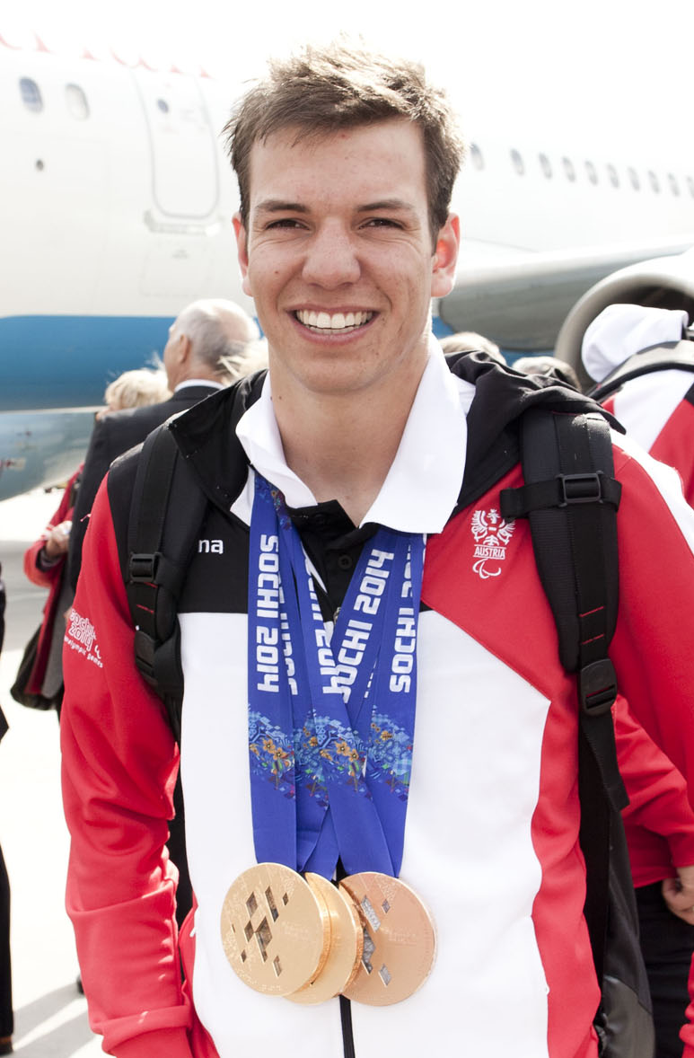 Markus Salcher at Vienna International Airport after returning from the Winter Olympics in Sochi